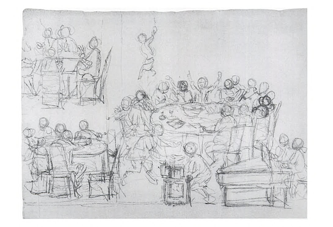 A Sketch or View of the Company [Rose and Crown Club] as are Together when they Celebrate there Kalendae or Mounthly Computations. Original sketch is in red chalk.